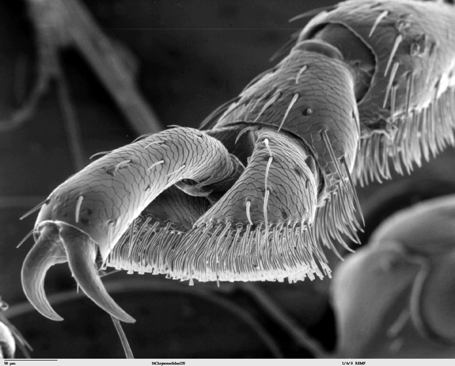 Claws and pretarsus of a Coleoptera Chrysomelidae